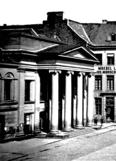 t